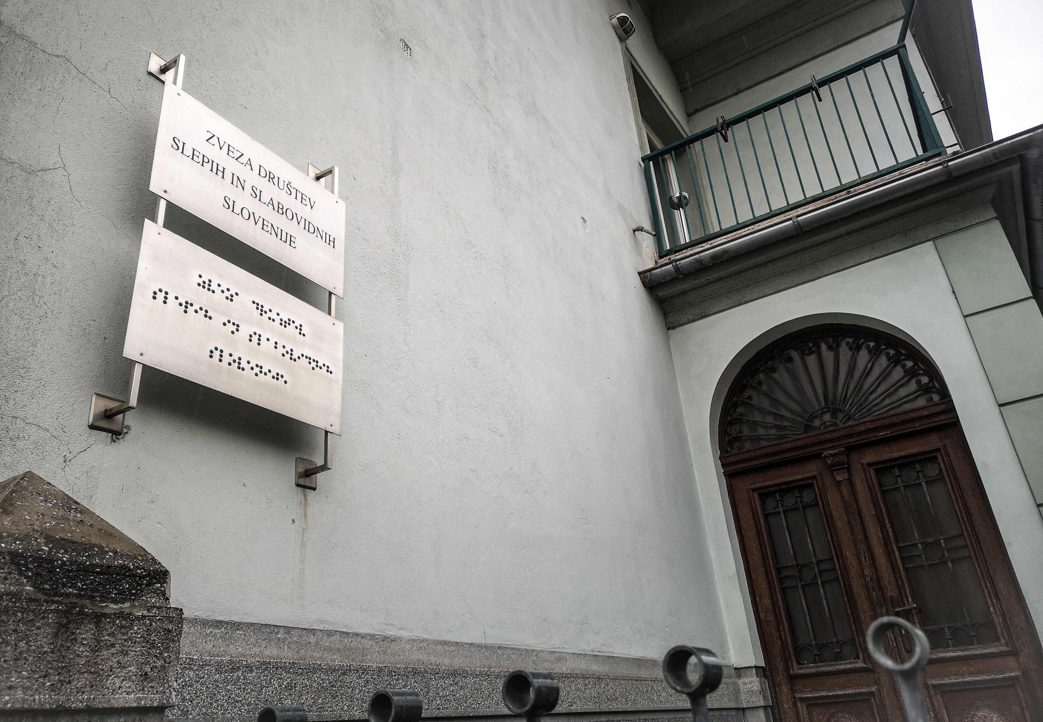 Slovenian Association of Blind and Visually Impaired, Grohar Street 2, Ljubljana